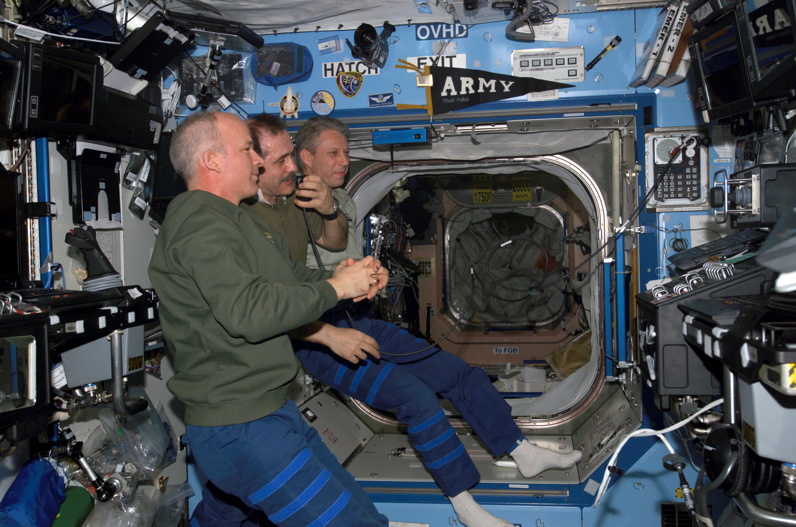 Astronaut Jeffrey N. Williams (foreground), Expedition 13 NASA space station science officer and flight engineer; cosmonaut Pavel V. Vinogradov (center), commander representing Russia's Federal Space Agency; and European Space Agency (ESA) astronaut Thomas Reiter, flight engineer, conduct a teleconference in the Destiny laboratory of the International Space Station, via Ku- and S-band, with audio and video relayed to the Mission Control Center (MCC) at Johnson Space Center.